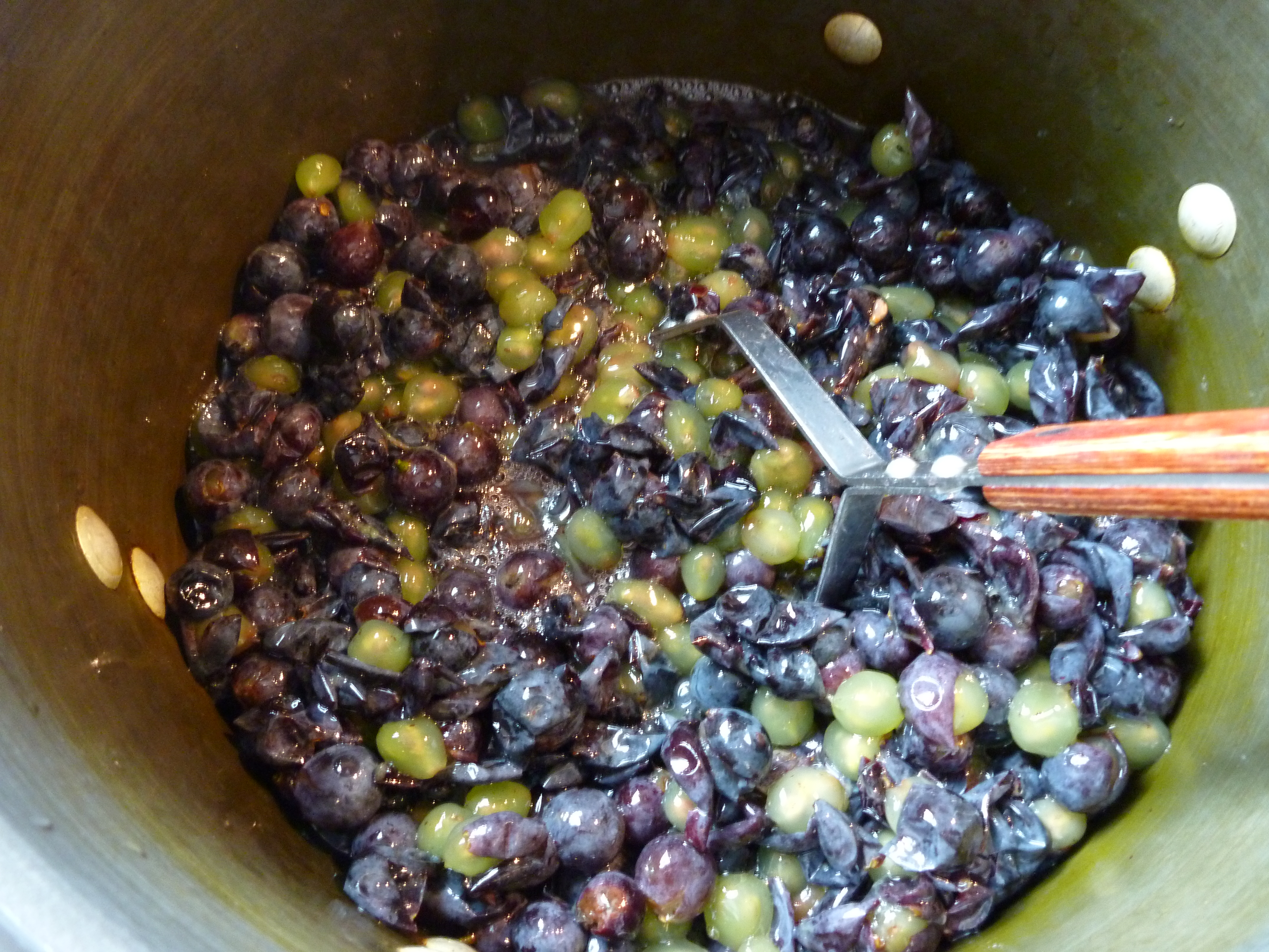 Concord grapes in the process of being turned into jelly